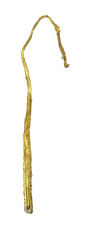 Gold Locality: Eldorado County, California Size: miniature, 5.7 cm tall Wire Gold A very unusual speicmen! Wire gold is rare from ANY LOCALITY but especially so from the US. Old localities here include thos ein Colorado and a VERY few places in California. This spectacular wire, 3 inches long if you unbend and extend it, is one of the finest of its type I have seen from any California locale. The size is exceptional, and so is the brightness. It is sturdy, not as fragile as it looks. I cannot emphasize how rare and unique such a treasure is! Old labels from the Frank Hess collection and from Pala Intl